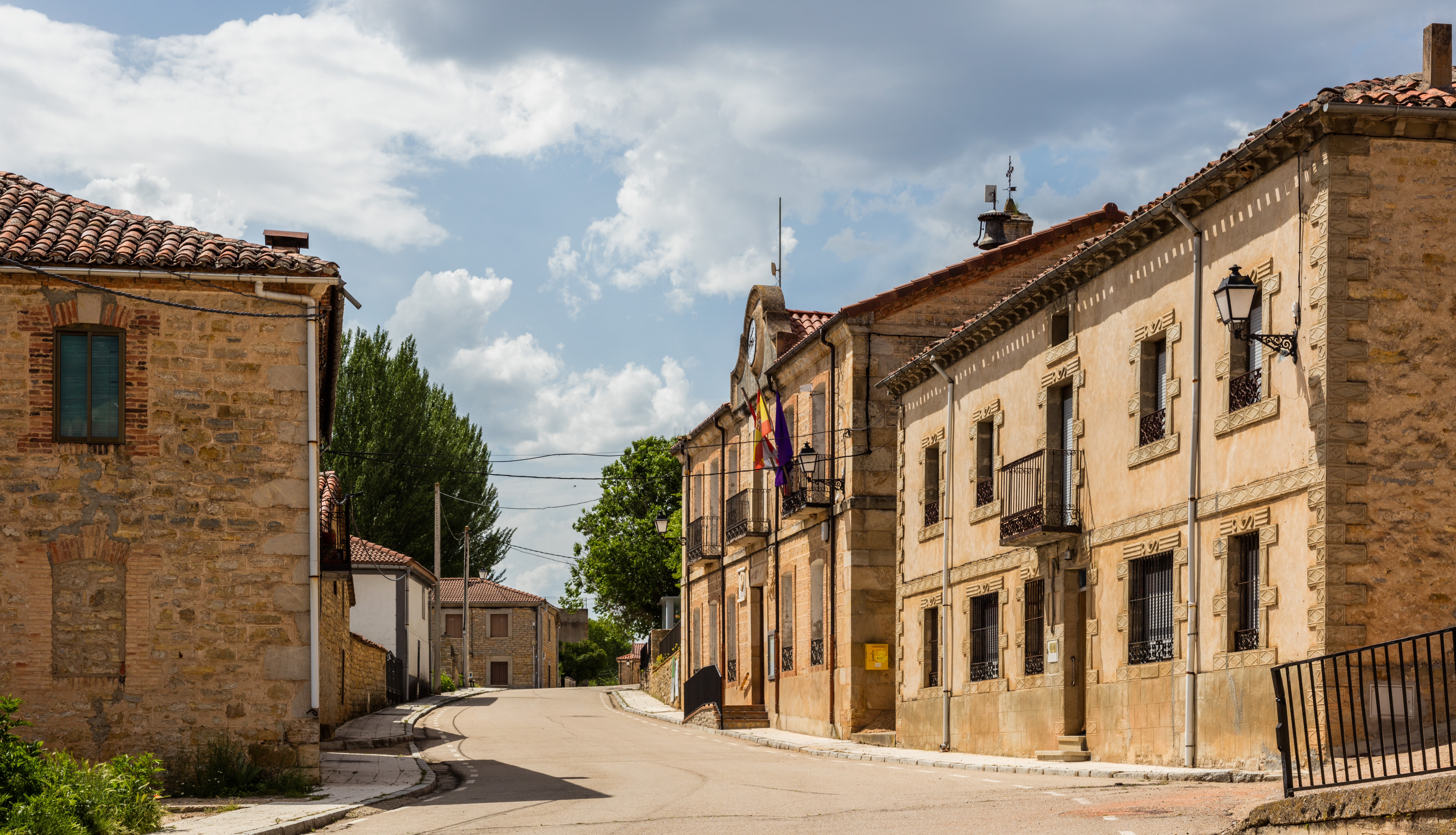 Muriel de la Fuente, Soria, Spain